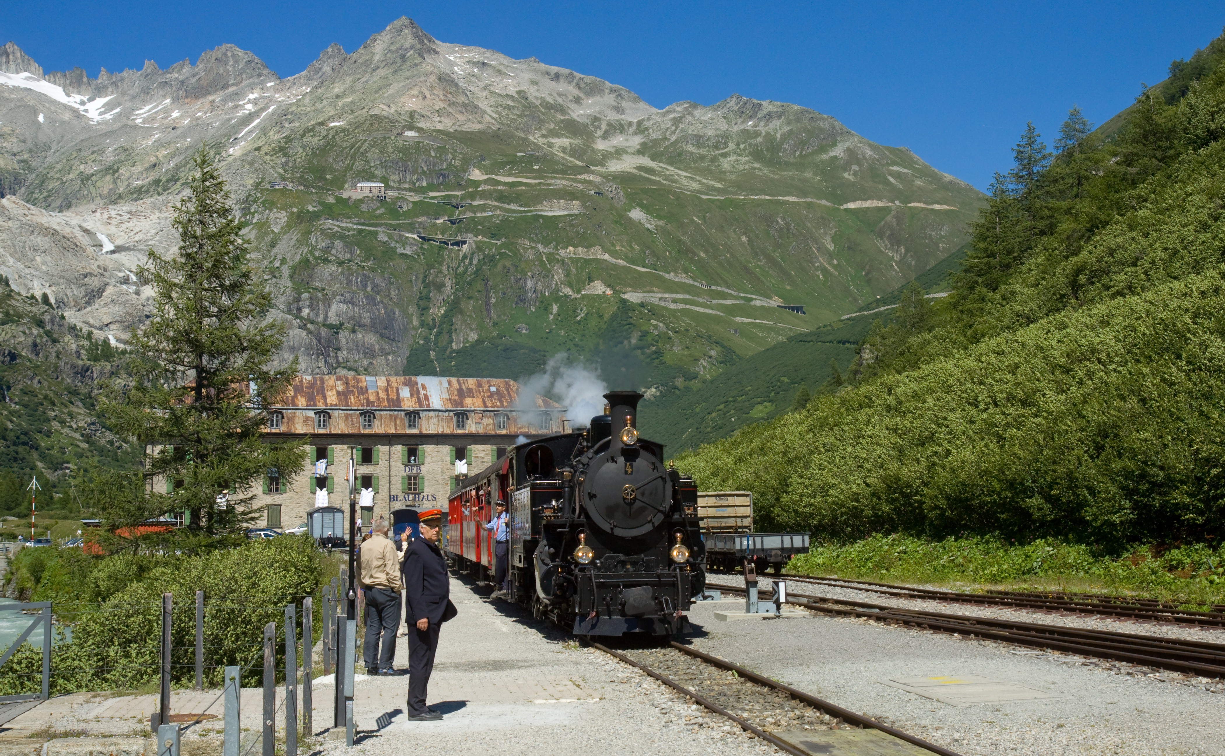 Rack-and-adhesion locomotive HG 3/4 nr. 4 of the Dampfbahn Furka-Bergstrecke arriving at Gletsch.